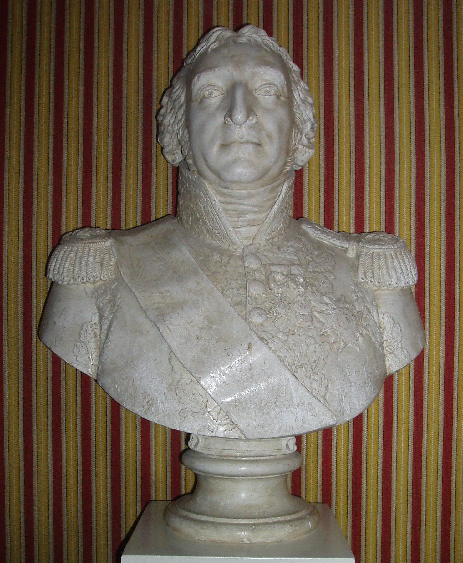 Bust of Charles Pierre François Augereau at the Chateau de Chambord, France.